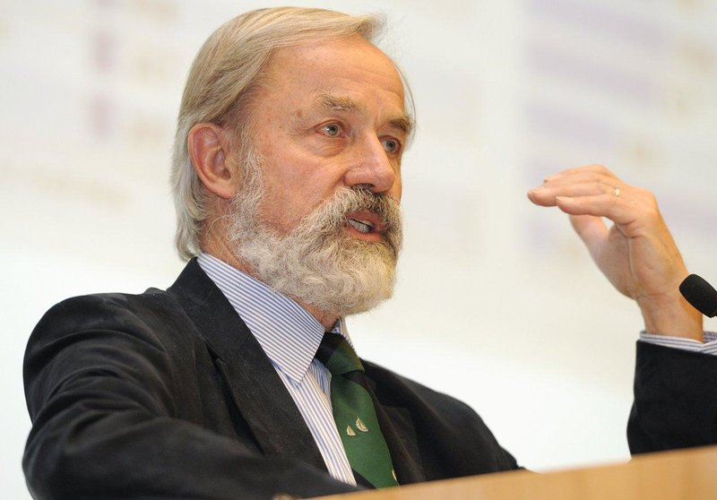 portrait of Miachael F. Jischa